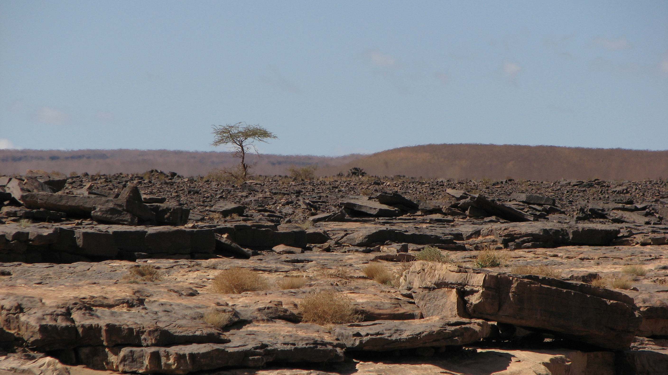 Desert pavement in the Moroccan Sahara